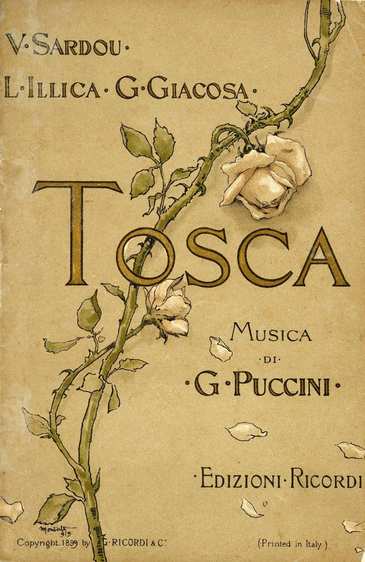 Cover of the libretto for Tosca